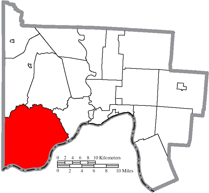 Map of the municipal and township boundaries of Scioto County, Ohio, United States, as of the 2000 census, with the location of Nile Township highlighted. Township borders are shown only in unincorporated areas in order to differentiate incorporated and unincorporated areas more clearly.